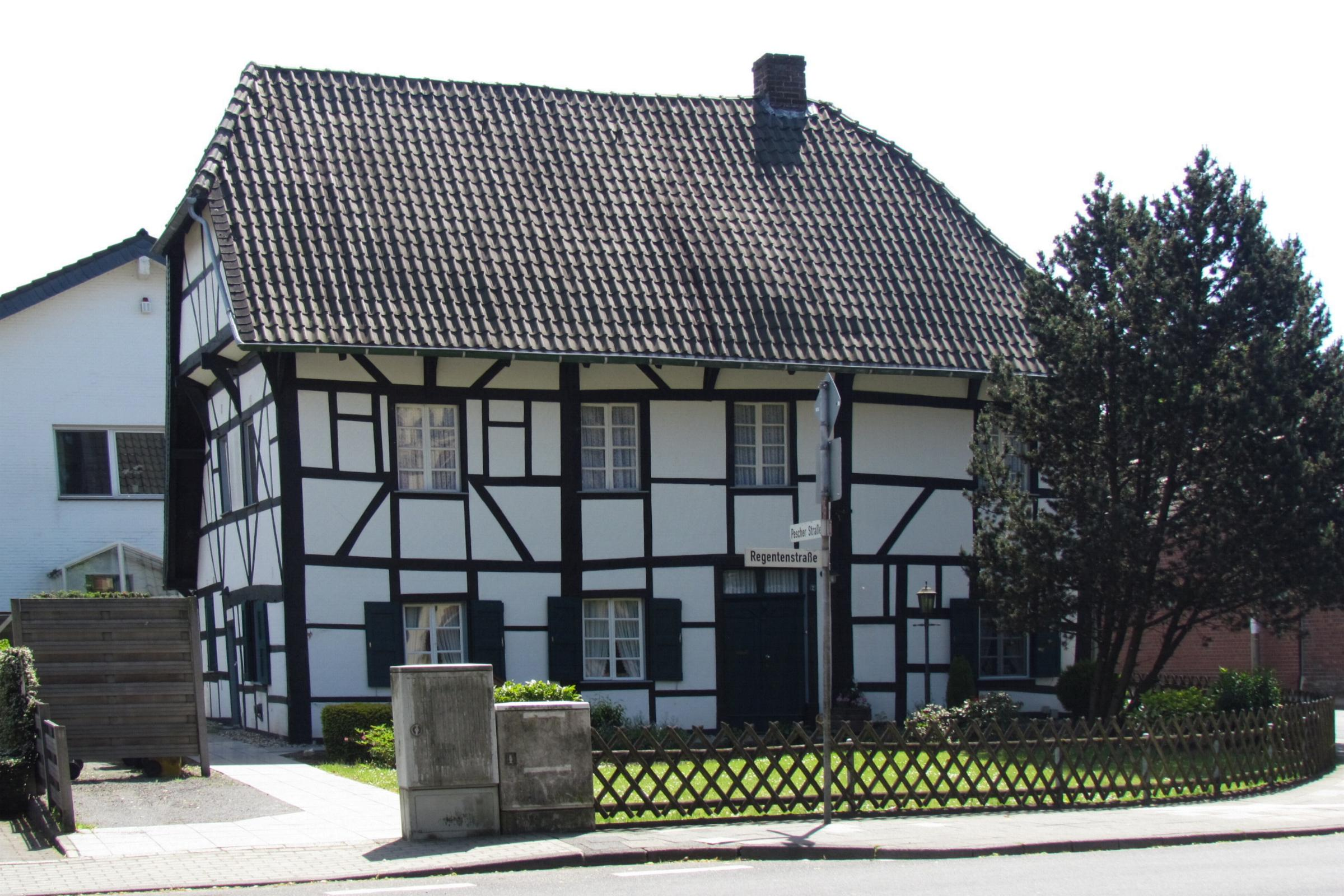 This is a photograph of an architectural monument.It is on the list of cultural monuments of Korschenbroich